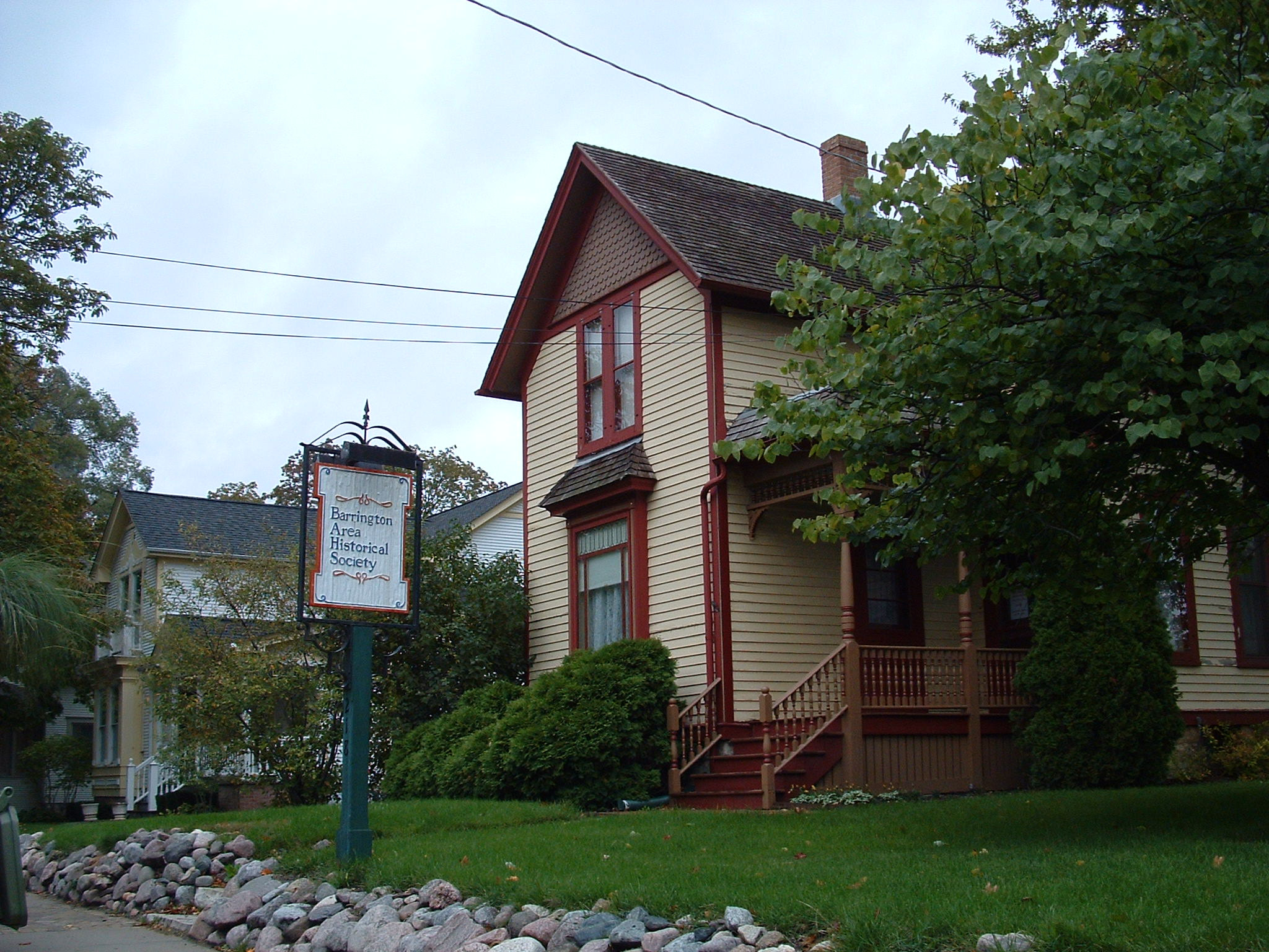 Photo of Barrington Area Historical Society, West Main Street, Barrington, Illinois.